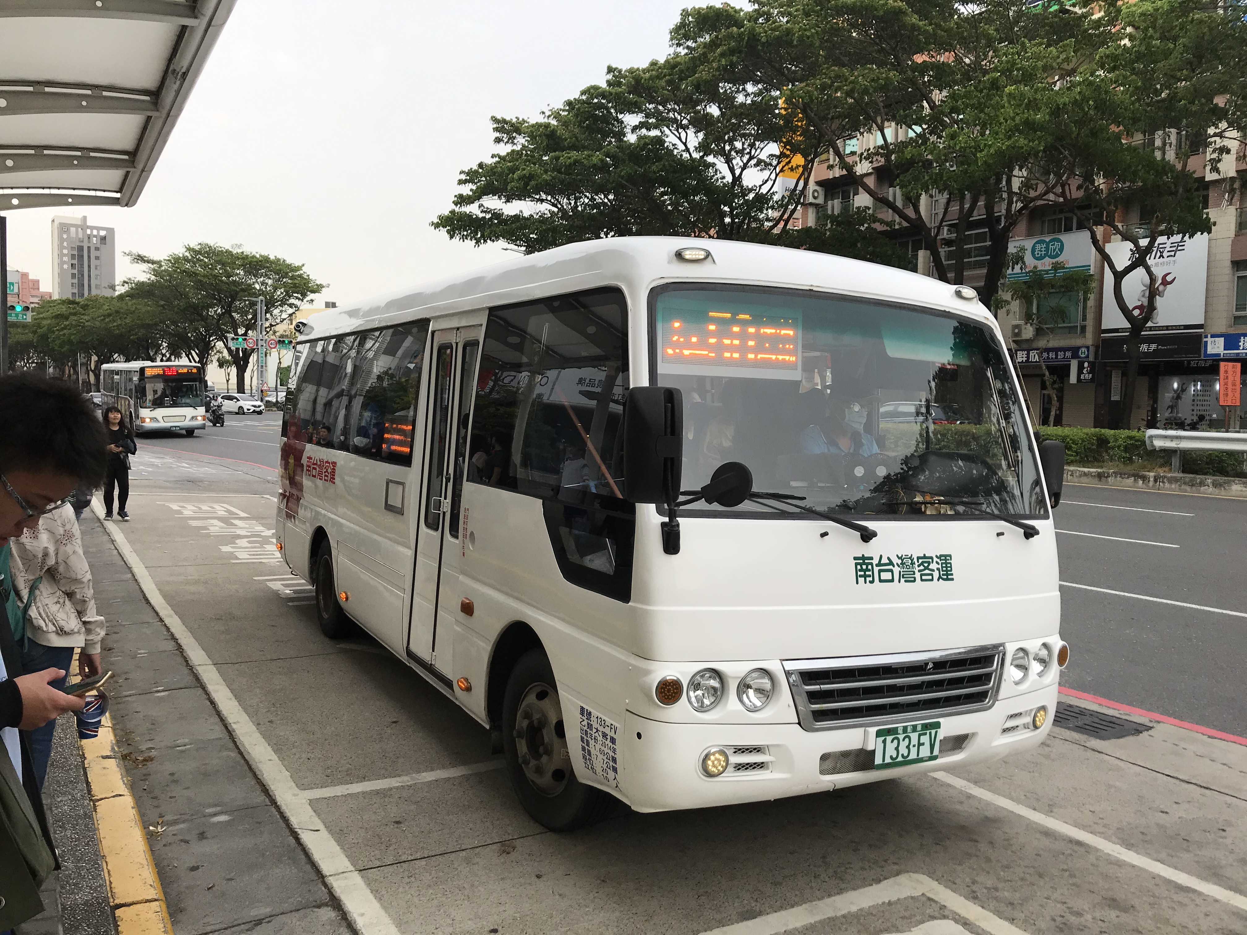 St bus